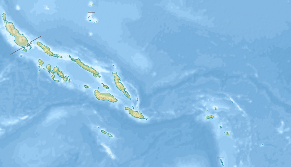 Relief map of Solomon Islands. Equirectangular projection. Geographic limits of the map: N: 4.3° S S: 13.5° S W: 154.4° E E: 170.4° E